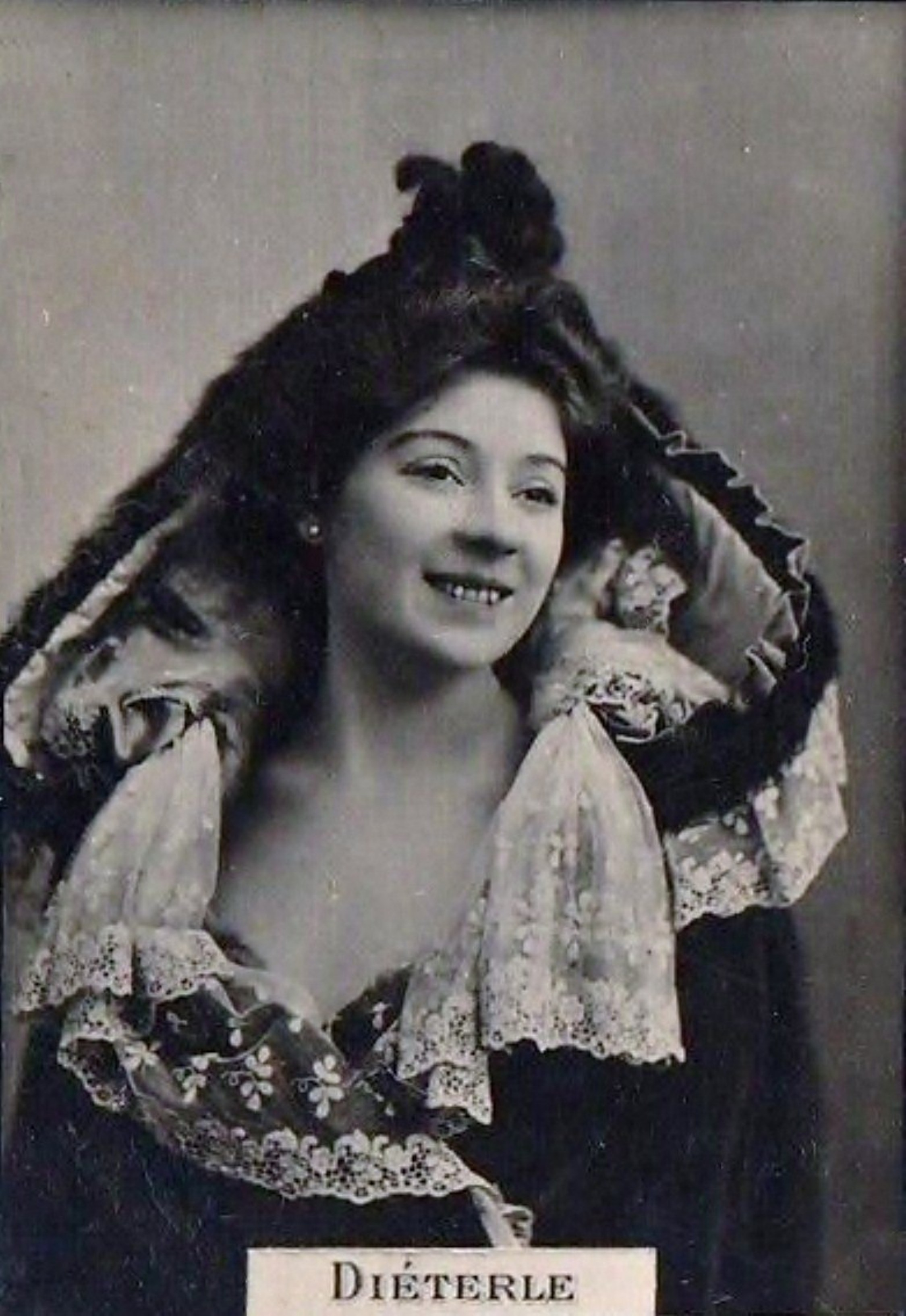 Amélie Diéterle by Léopold-Émile Reutlinger in Paris. Amélie Diéterle is a French actress born in Strasbourg on 20 February 1871 and died in Cannes on 20 January 1941. She was legitimated in Paris in 1892 by Captain Louis Laurent, Knight of the Legion of Honor. Amélie Diéterle married in Vallauris on 16 June 1930 with André Simon (1877-1965). Amélie Diéterle plays mainly at the Théâtre des Variétés in Paris during the Belle Époque.